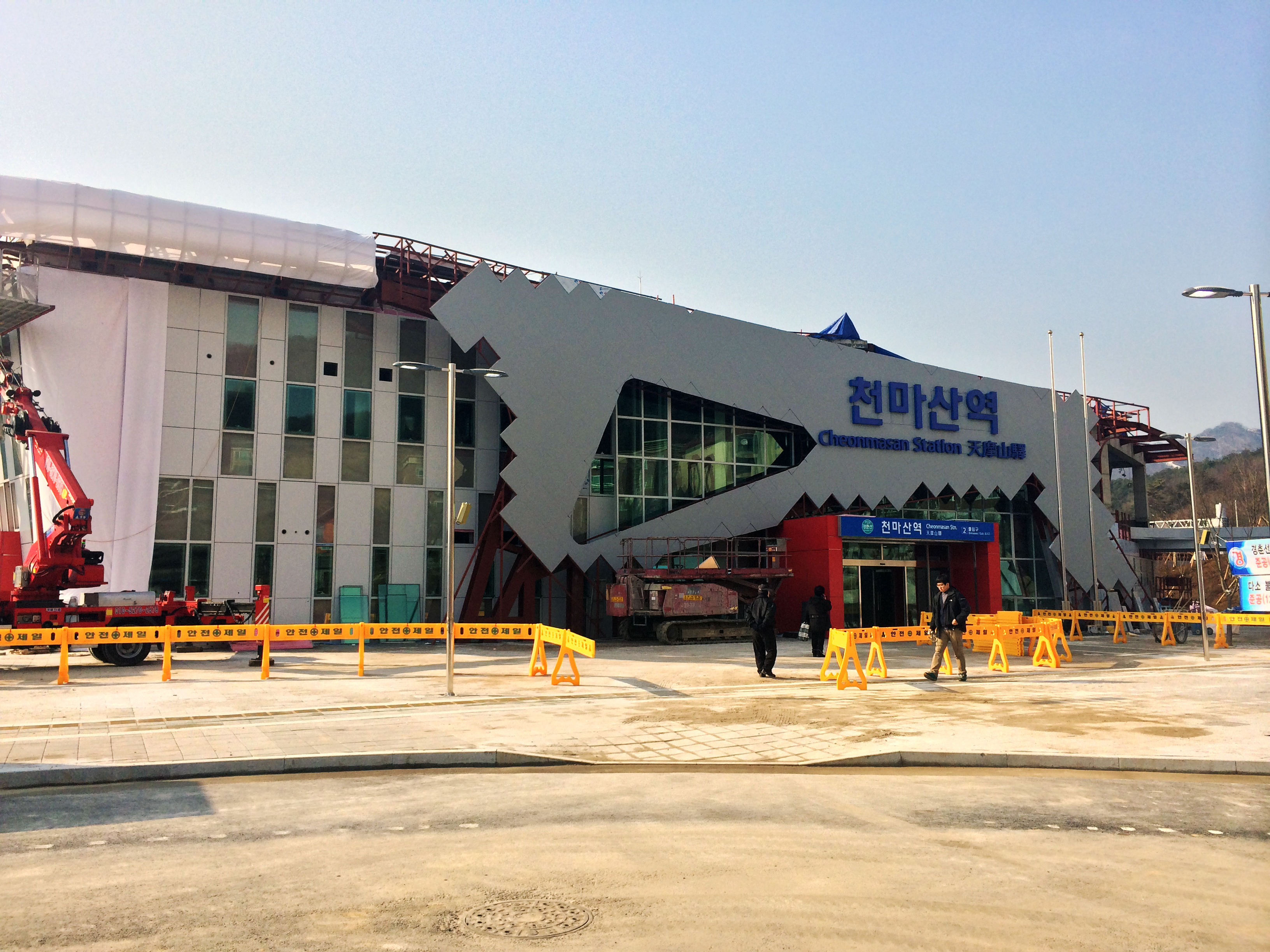 Cheonmasan Station